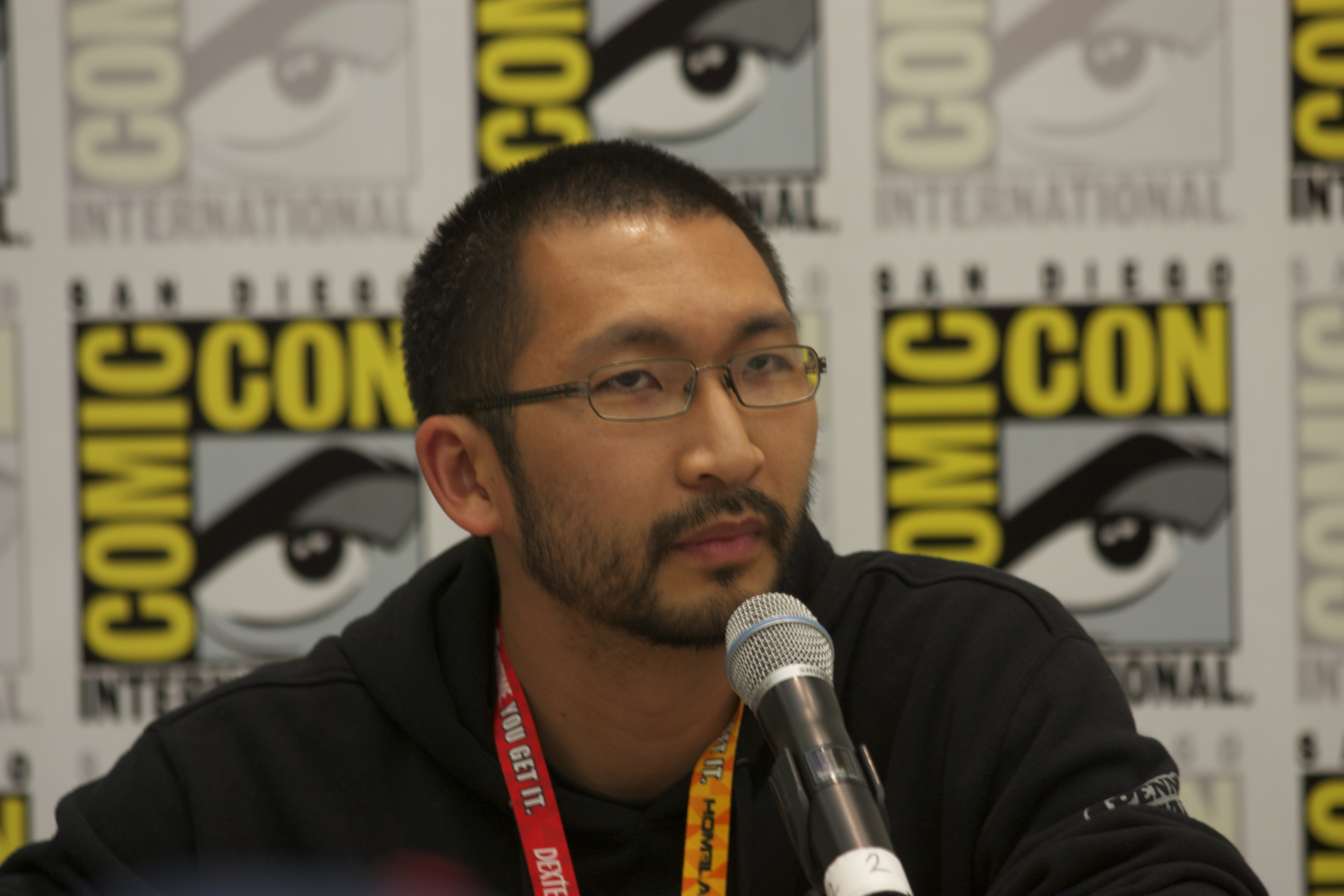 Robert Khoo, director of business development at Penny Arcade, speaking on the "Business of Webcomics" panel at the 2012 Comic-Con International.